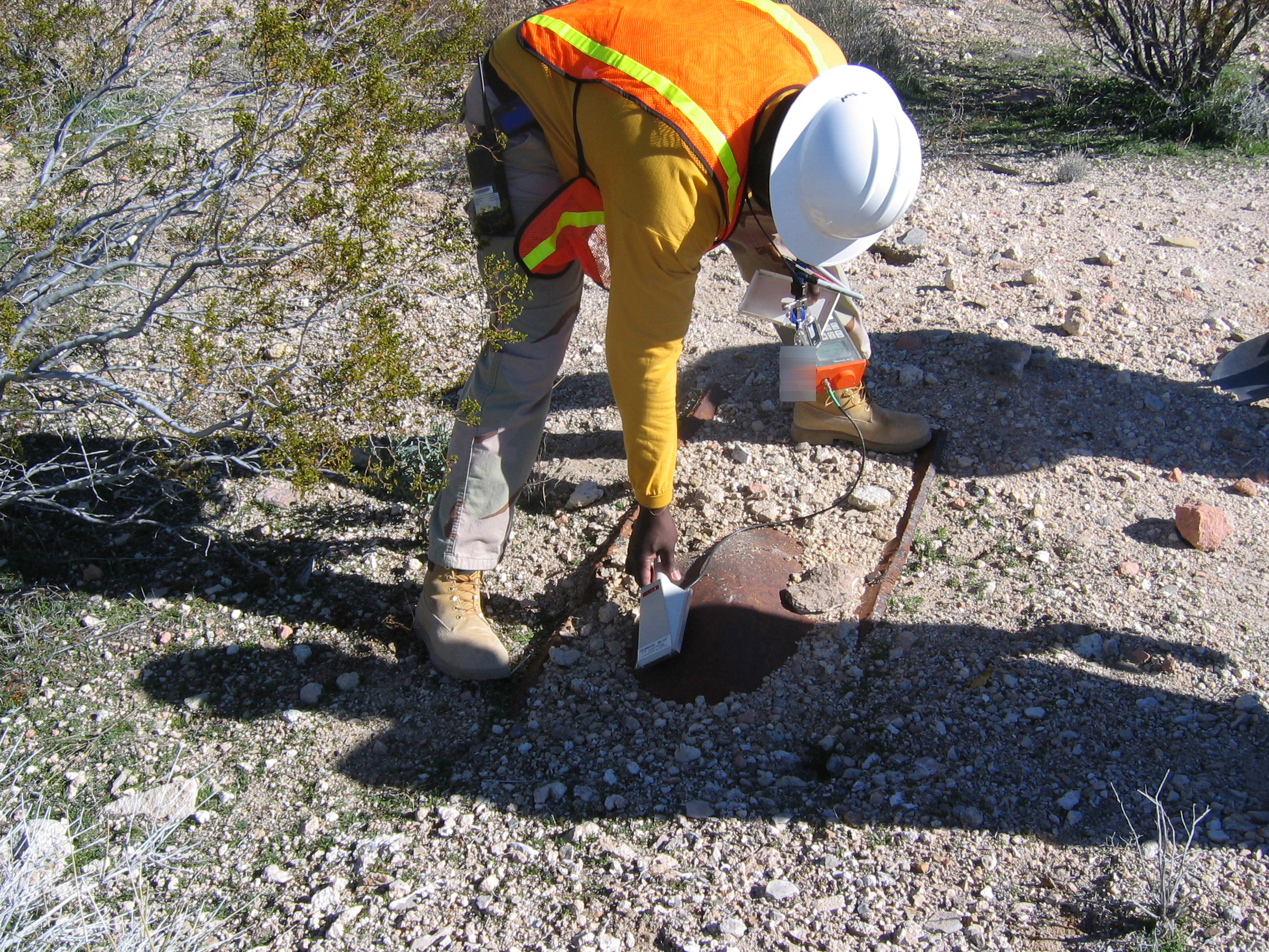 A radiation technician conducts a spot survey on debris at Corrective Action Unit 511, Site A located on the Nevada Test Site